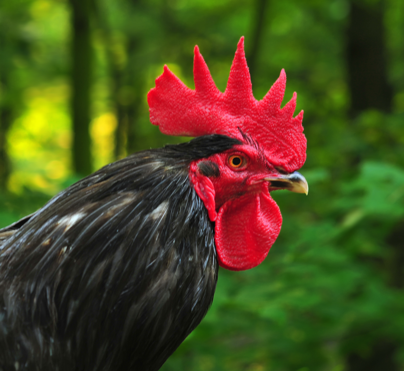 Black Australorp Rooster in the Wisentgehege Springe game park near Springe, Hanover, Germany